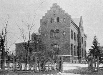 Director's house at the Krenholm Manufacturing Company, Narva. From the book: Кренгольмская мануфактура: Историческое описание, составленное по случаю 50-летия её существования. — СПб., 1907.